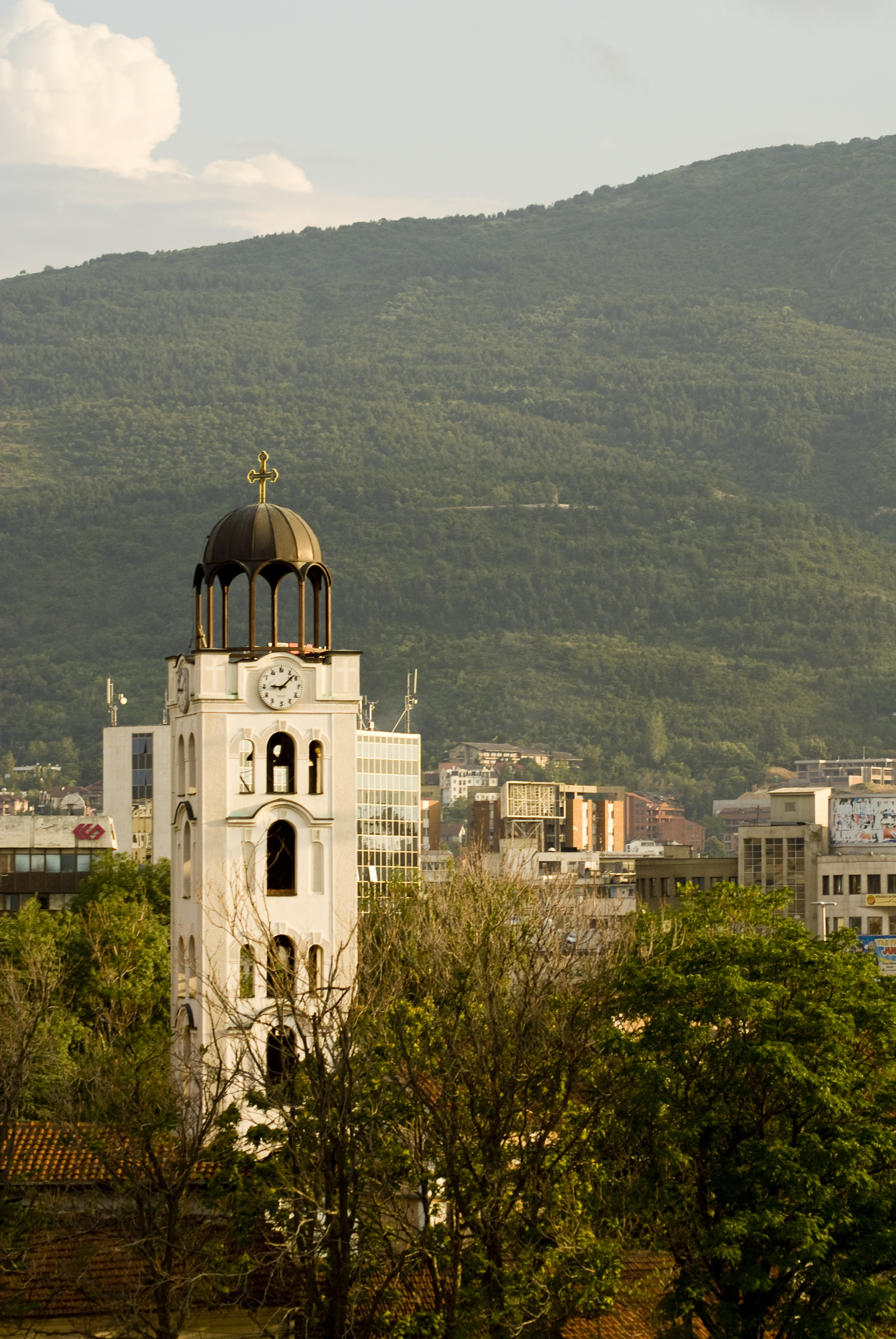 St. Demetrious Church in Skopje, Macedonia